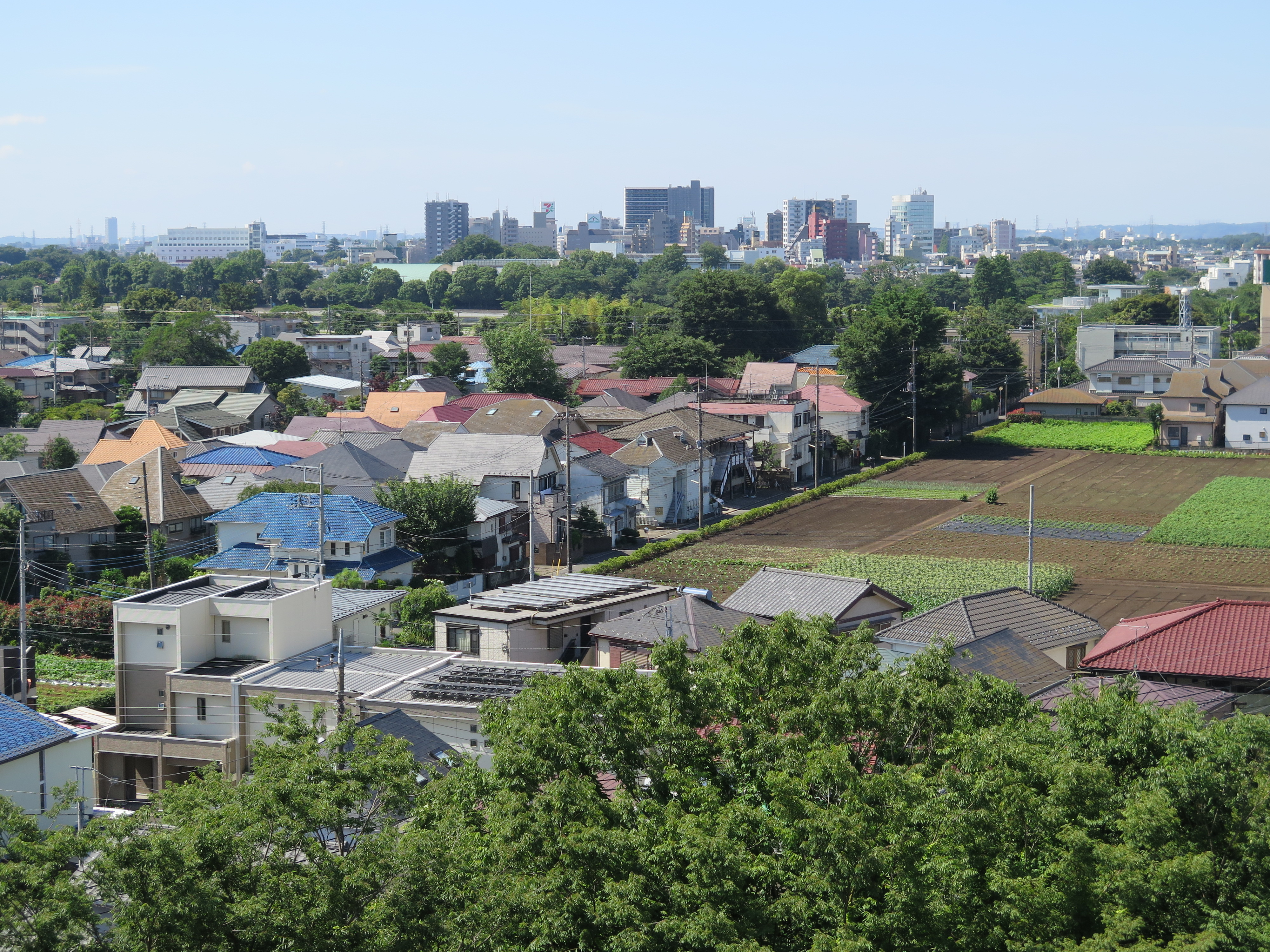 Looking SW onto northern Musashino City from a tall building in neighboring Nishitokyo in the early afternoon. Tokyo, Japan.